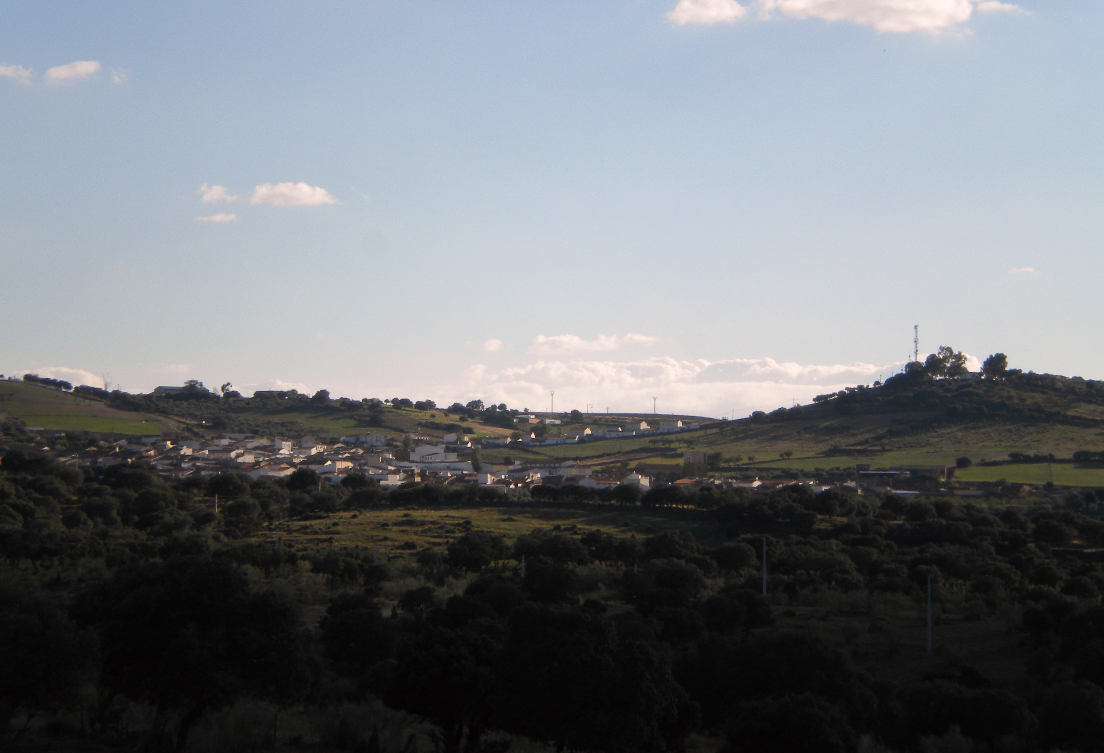 Sight of Talaván (Extremadura, Spain) from the way to the river Tagus